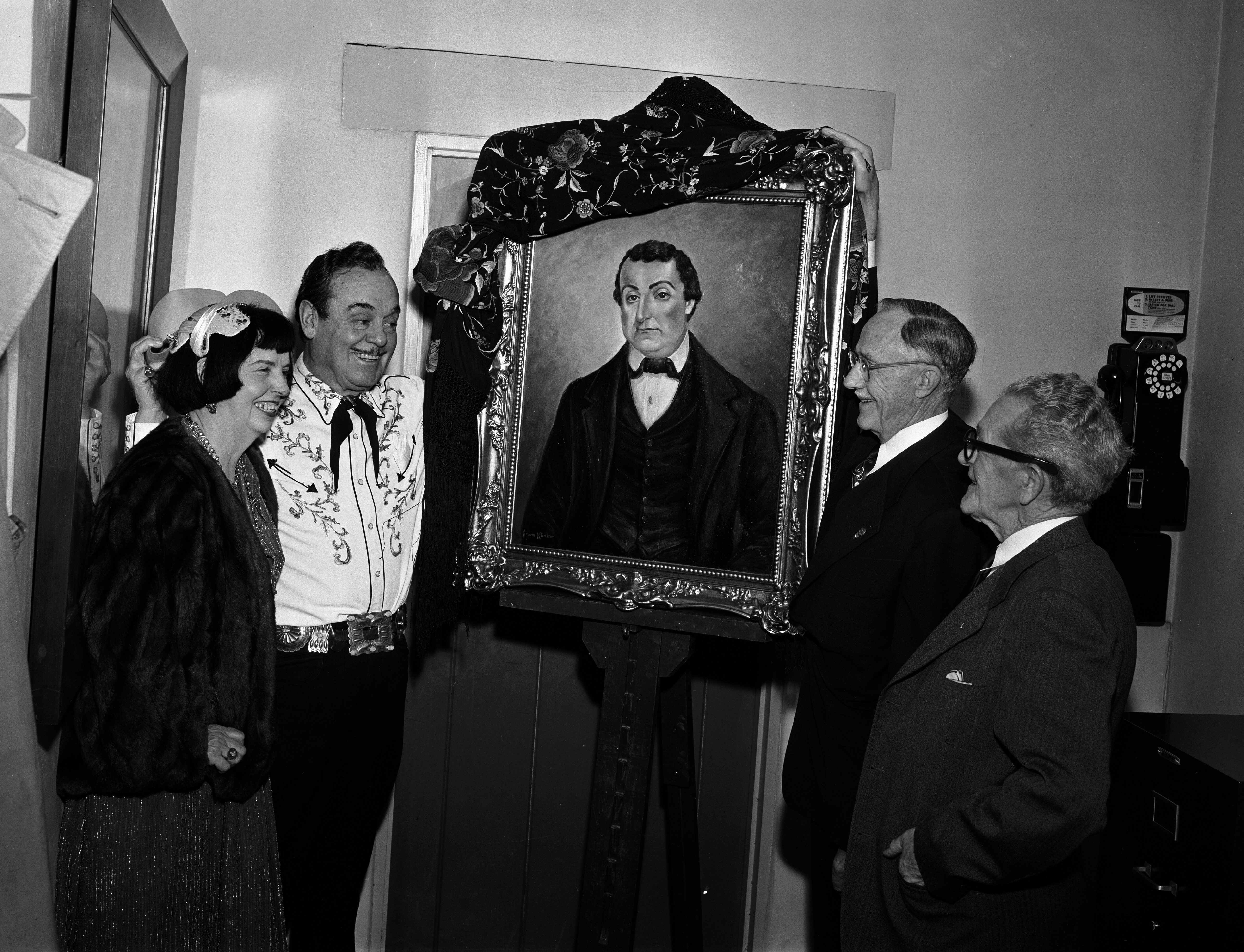 Leo Carillo unveils portrait of his great-uncle José Antonio Carrillo, 1955 Publication:Los Angeles Times Publication date:January 17, 1955 Source:Los Angeles Times photographic archive, UCLA Library Licensing Note about non-renewal of copyright: [1] Category:Images of American people Category:History of Los Angeles County